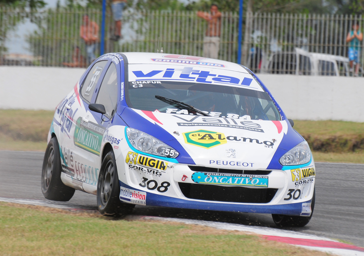 Facundo Chapur and his car Peugeot 308 (Vittal G Racing) Turismo Nacional Clase 3 (Argentina).